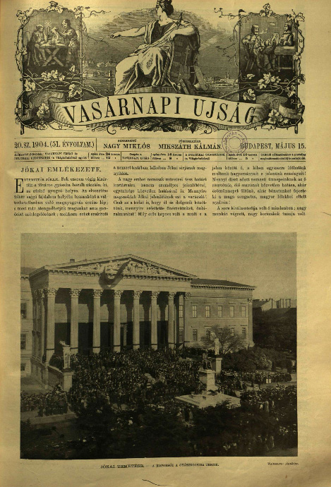 Hungarian journal: Vasárnapi Újság 1904